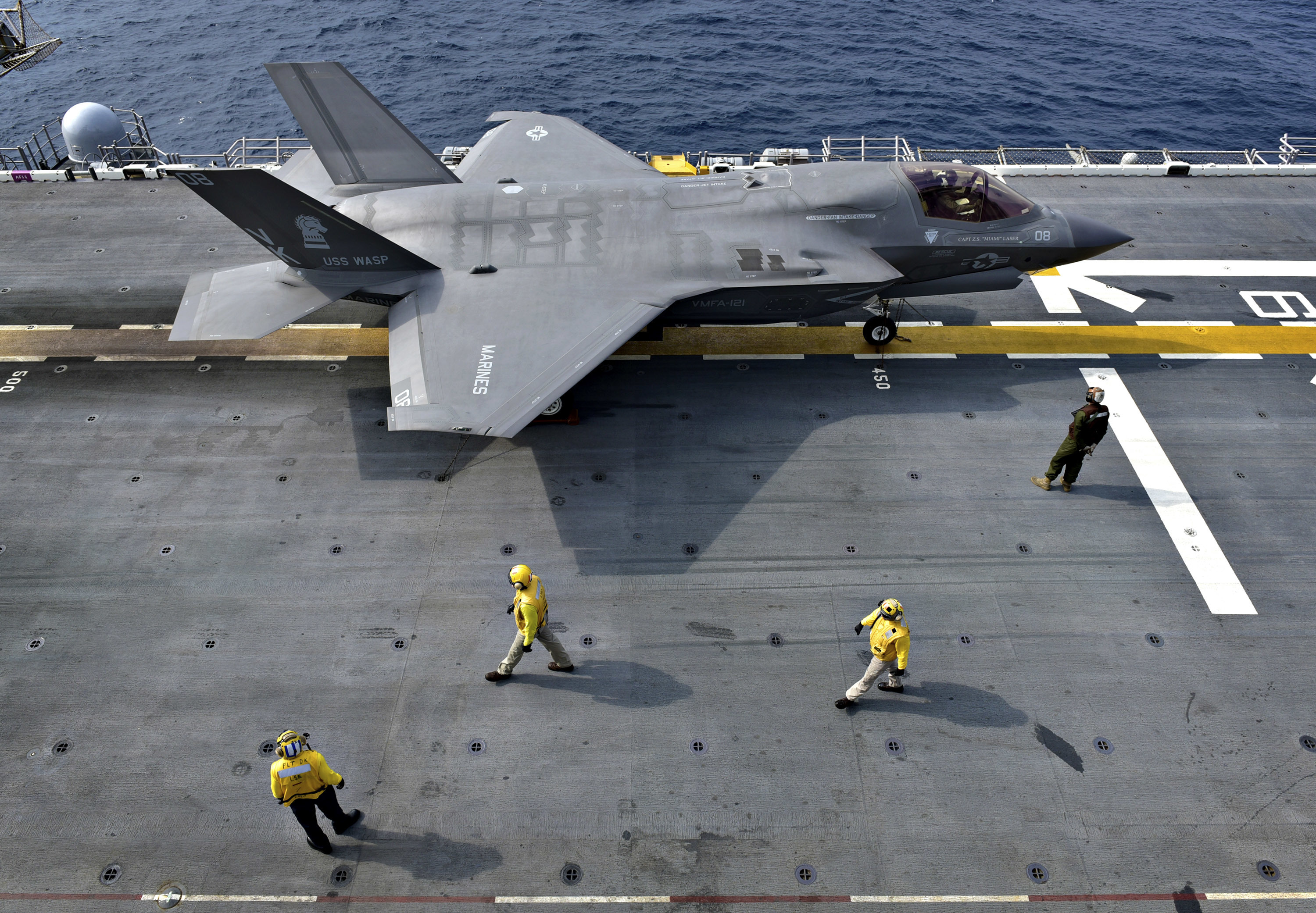 PHILIPPINE SEA (March 24, 2019) An F-35B Lightning II aircraft assigned to Marine Fighter Attack Squadron (VMFA) 121 is secured on the flight deck of the amphibious assault ship USS Wasp (LHD 1) in the Philippine Sea, March 24, 2019. Wasp, flagship of Wasp Amphibious Ready Group, is operating in the Indo-Pacific region to enhance interoperability with partners and serve as a ready-response force for any type of contingency. (U.S. Navy photo by Mass Communication Specialist 1st Class Daniel Barker/Released) 190324-N-RI884-2881